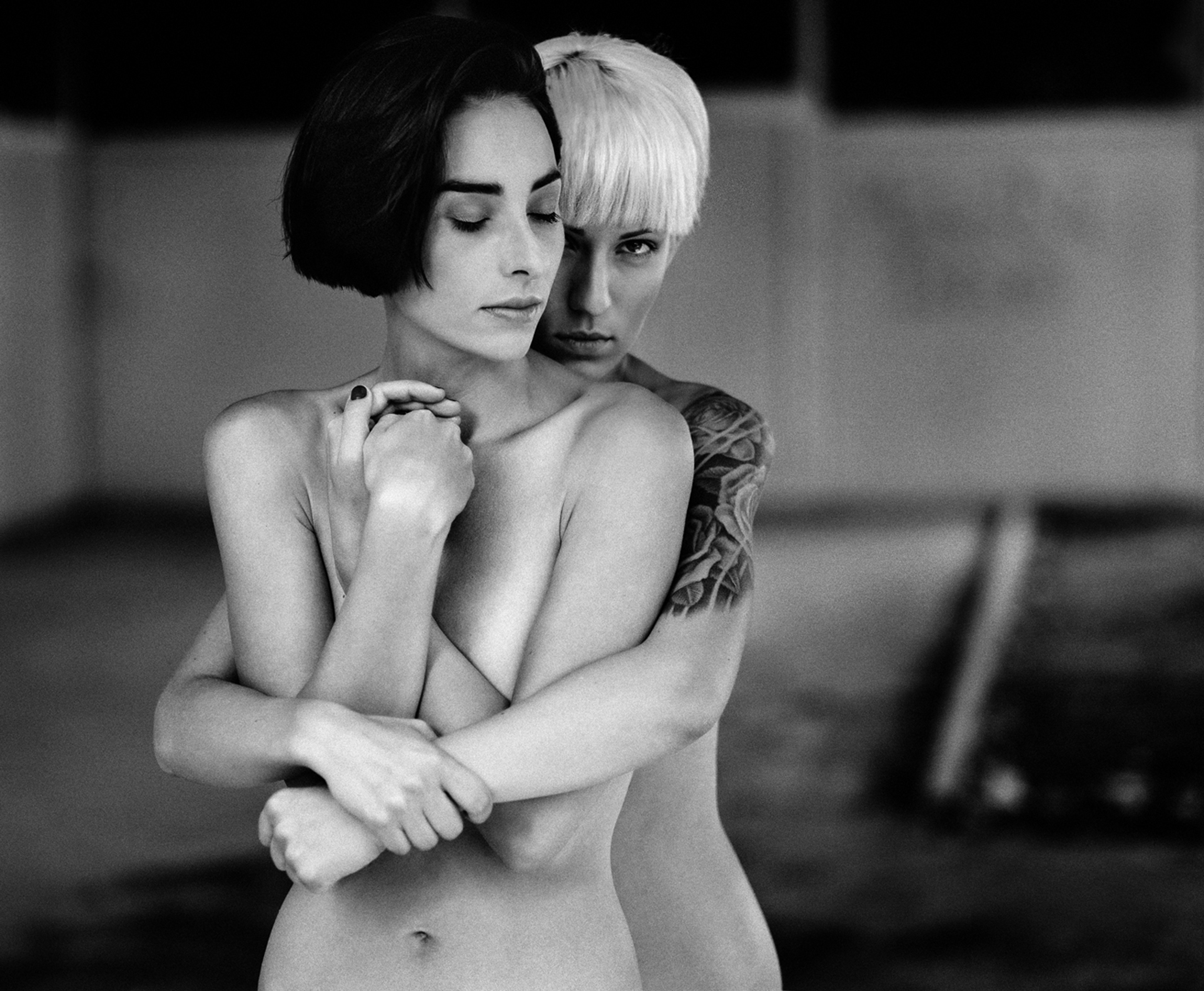 Double